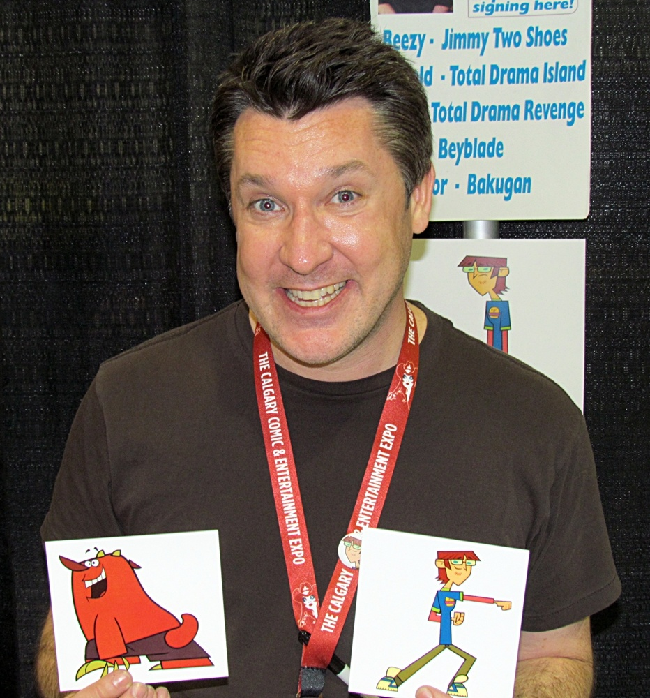 Brian Froud at calgary comic expo in 2012